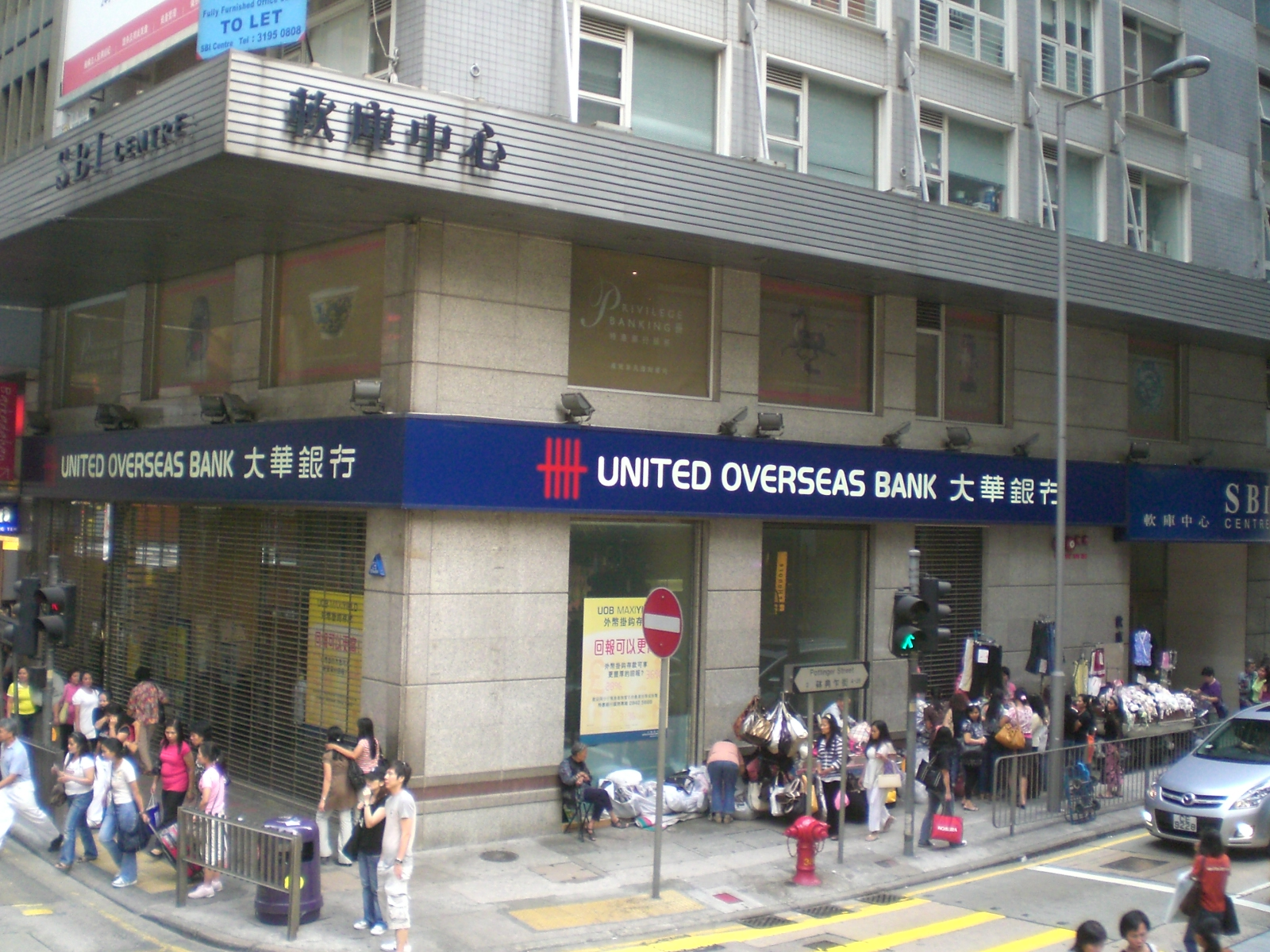 Description= United Overseas Bank, 大華銀行, SBI Centre, Des Voeux Road Central, Hong Kong. Source= self-made Photo made by MandeD